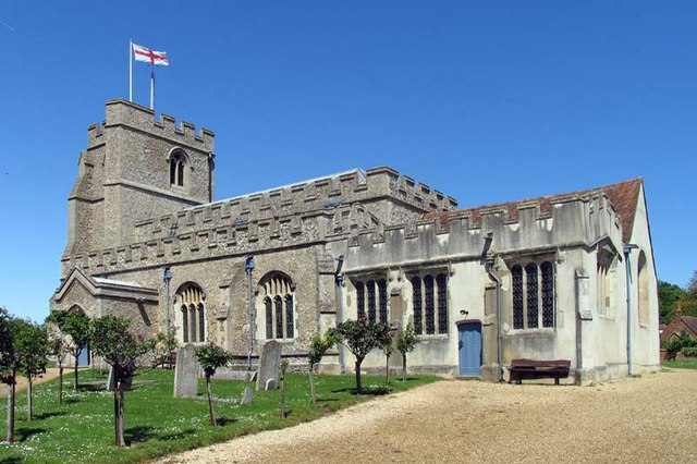 All Saints' parish church, St Paul's Walden, Hertfordshire, seen from the south